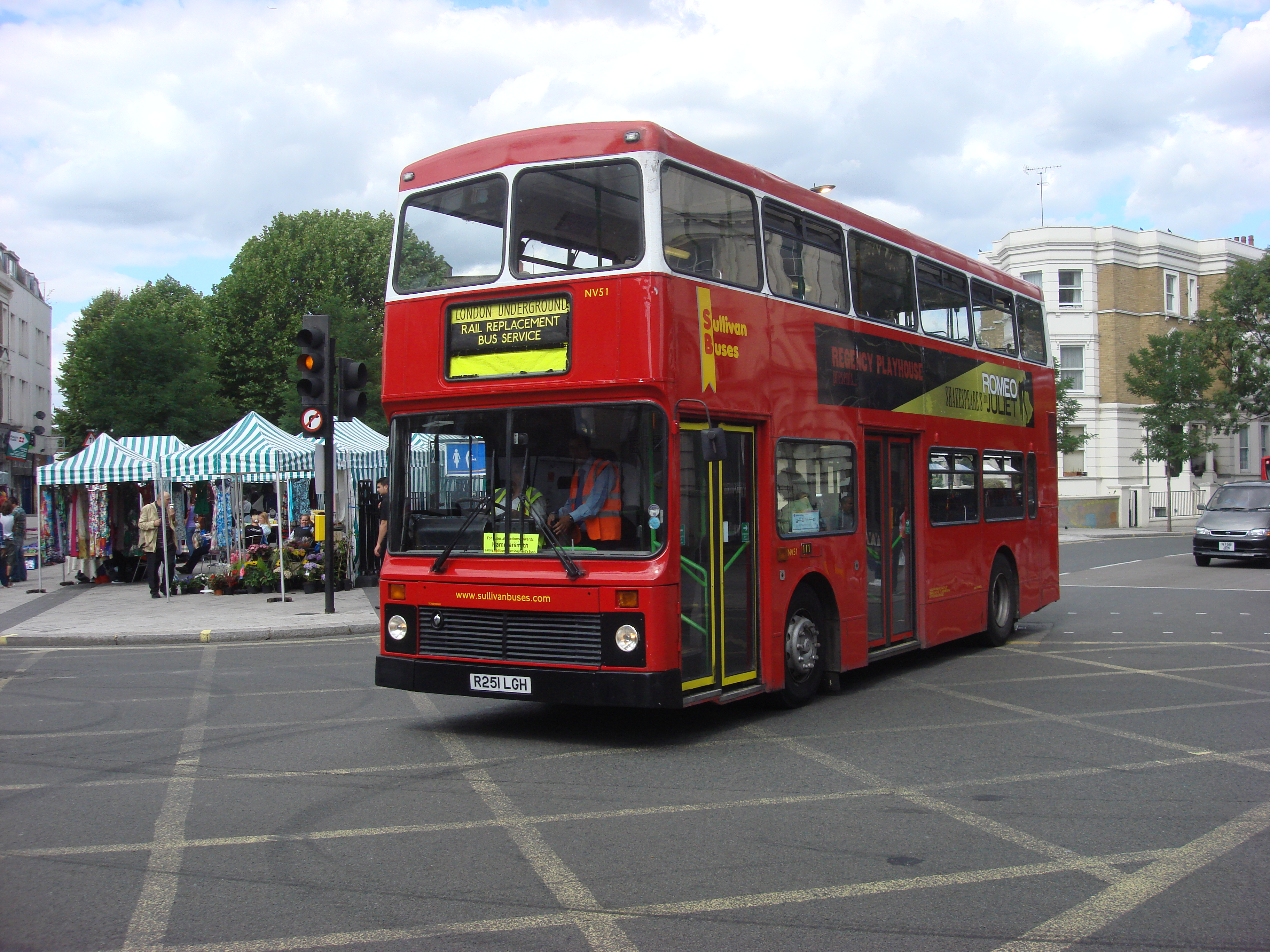 A London Bus R251 LGH.